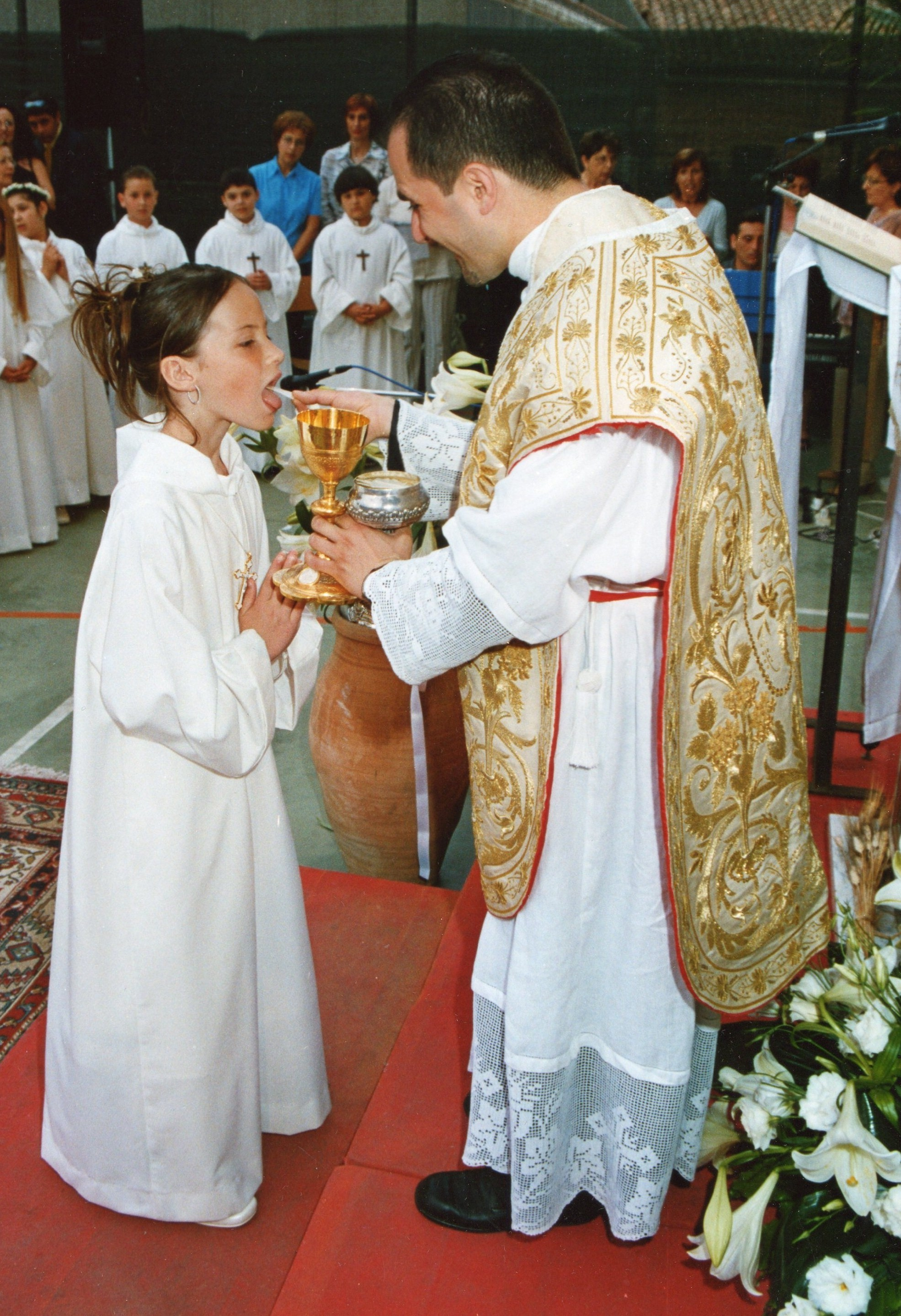 Girl receiving first Holy Communion, Sicily